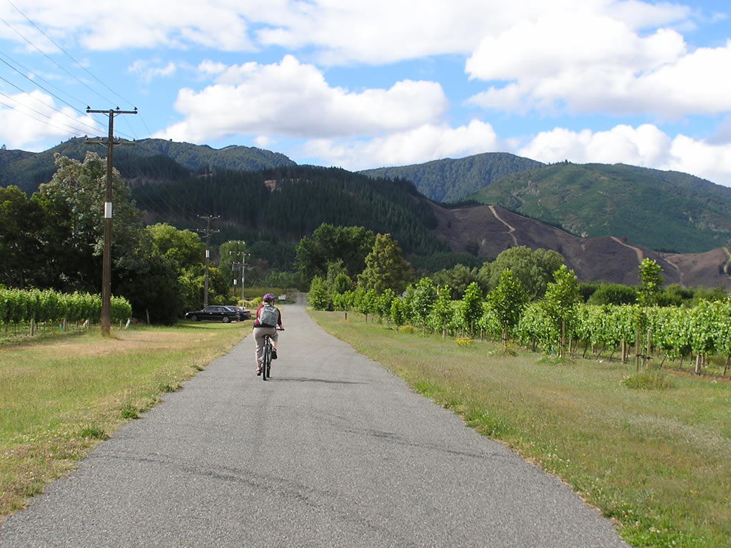 A country road and vineyard in Renwick, New Zealand.